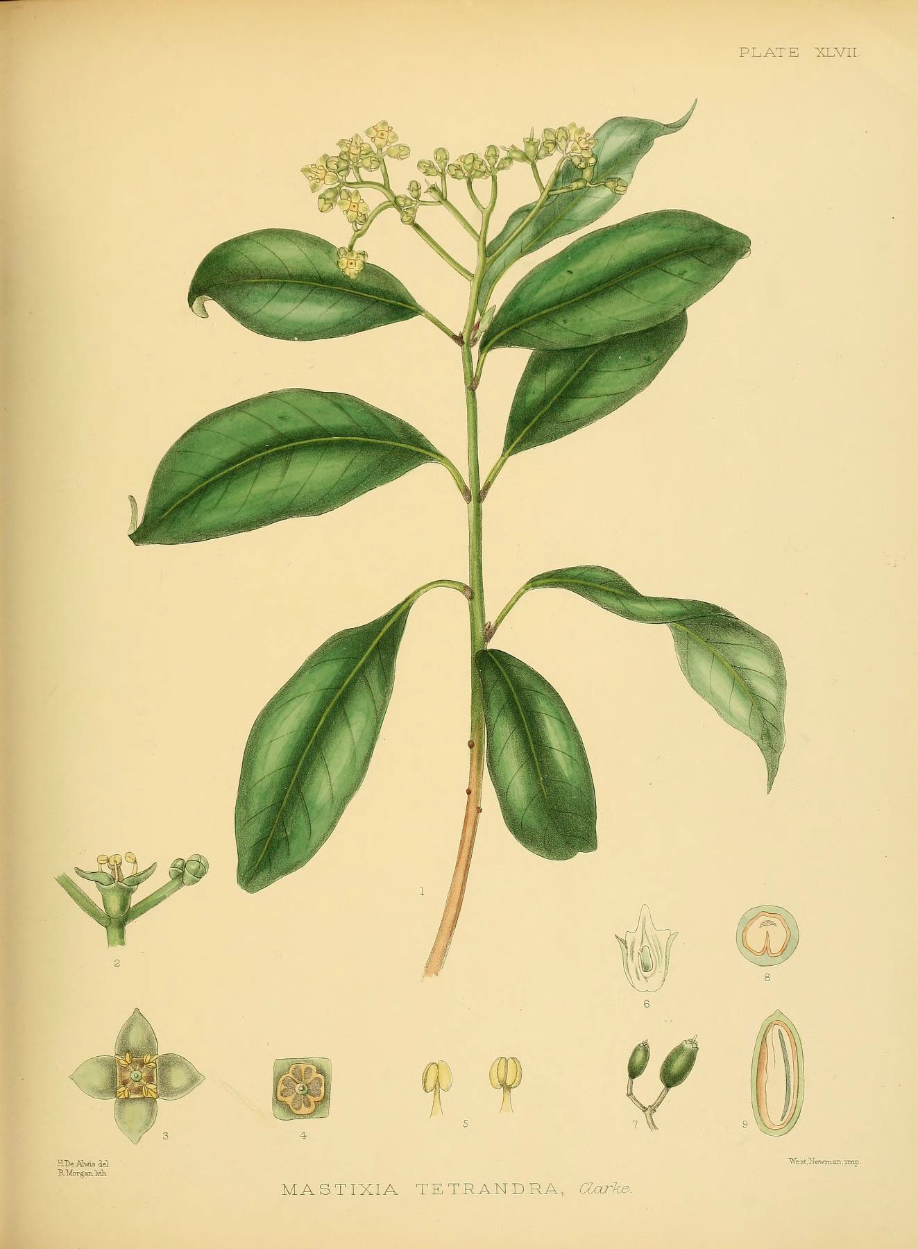 PLATE "XLVII MASTIXIA TETRANDRA, Clarke. "West, Newman, xmt) .